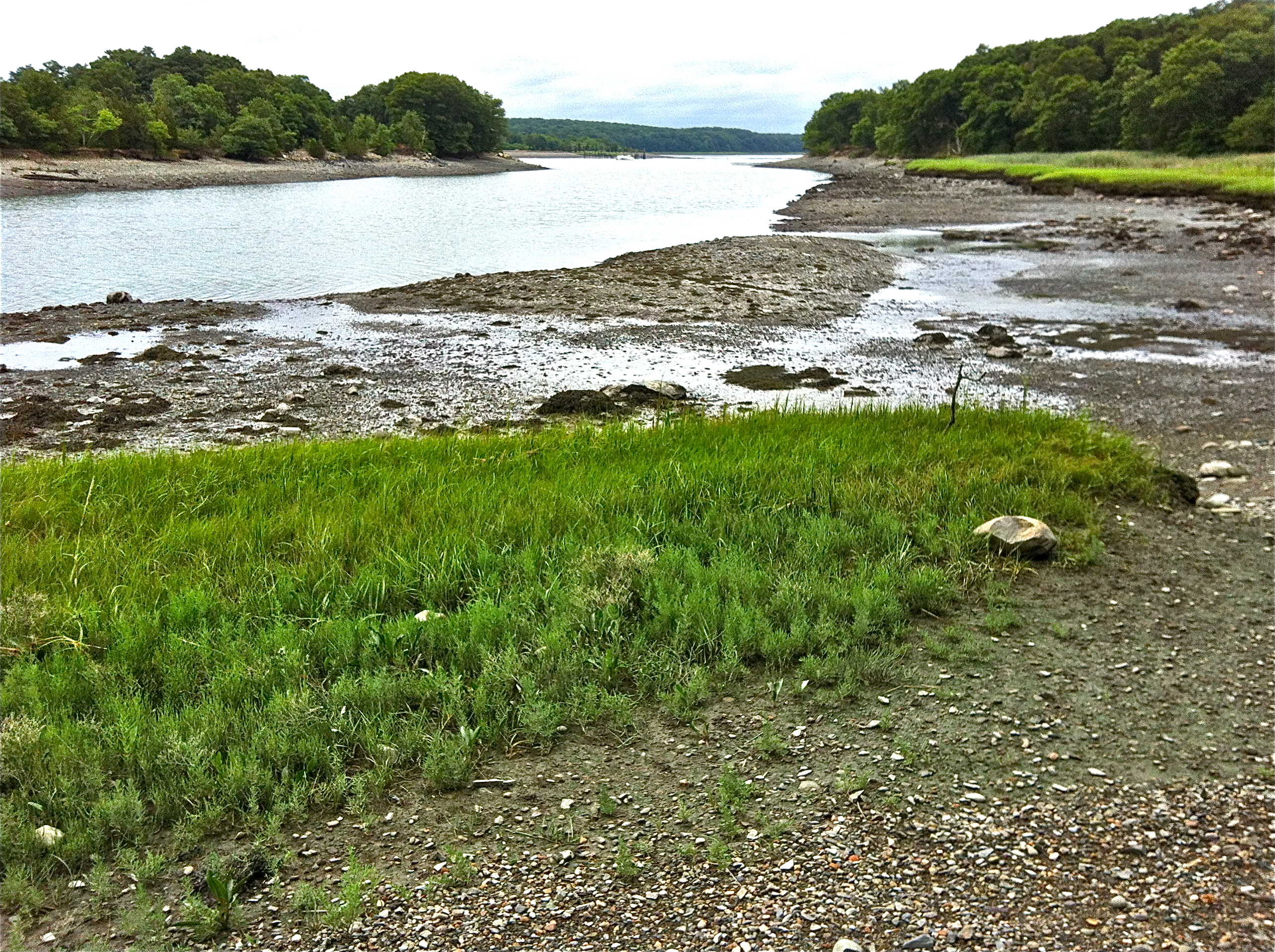 View of Weymouth Back River from shore of Great Esker Park in Weymouth, Massachusetts, looking upstream. The esker is on the right of the photo.